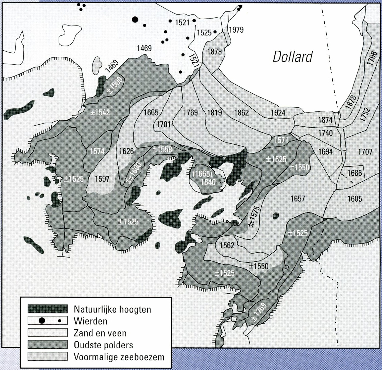 Embankments in the Dollart Bay